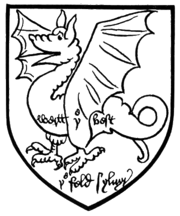 attributed arms of Uter Pendragon